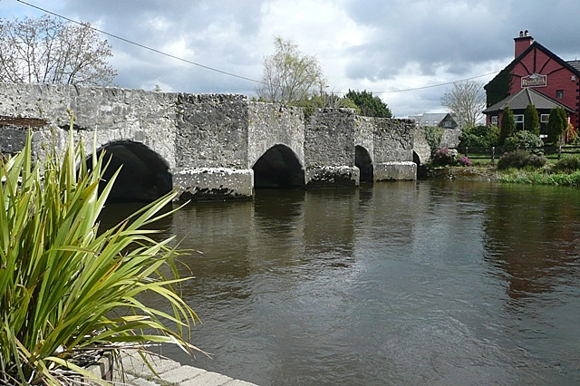 Riverstown Bridge This is the bridge over the Little Brosna River forming the boundary between Co Tipperary (this side) and Co Offaly. The name Riverstown seems to refer to the settlement on the far side river. This side seems to be called Ballyloughnane (Baile Uí Láchnáin).